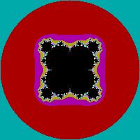 Complex recursive fractal, power 5